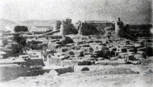 Nahavend Castle